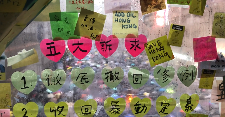 Post-it notes in support of Hong Kong protests, in Hong Kong, 18 August 2019